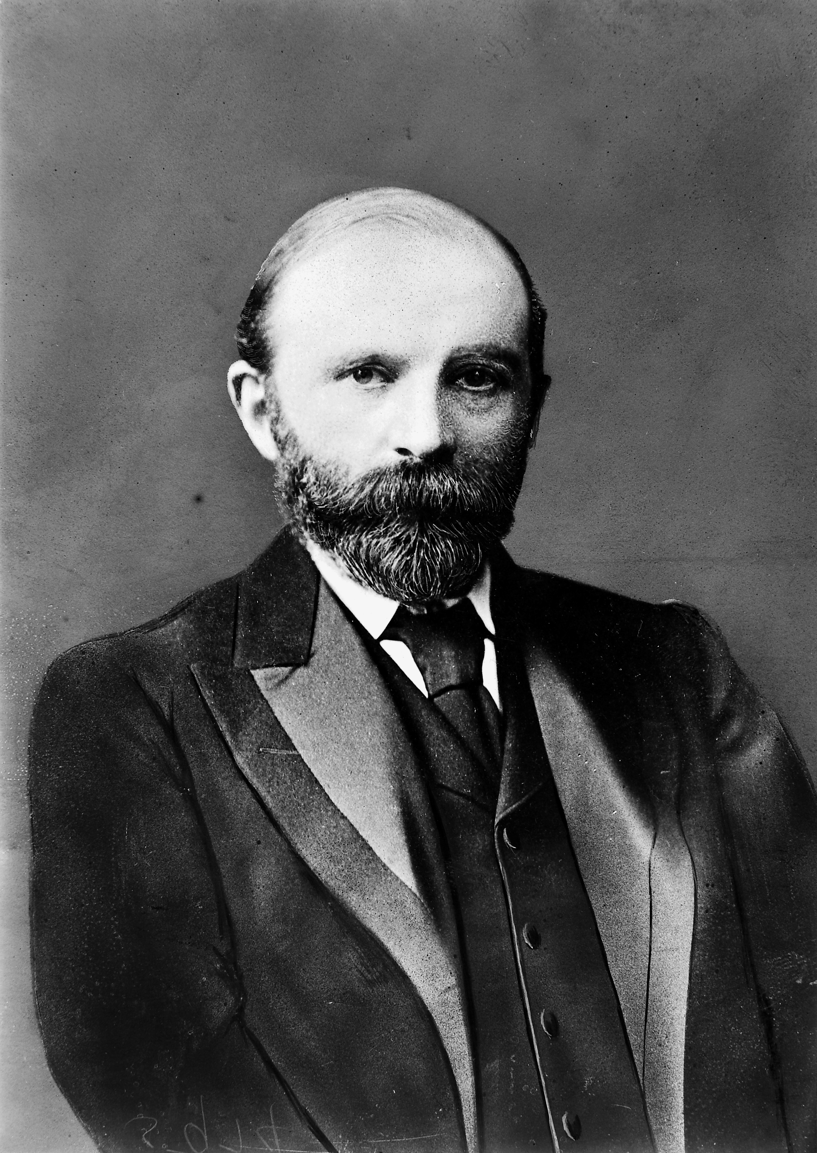 Portrait of Robert Milne Murray (1855-1904), obstetrician and lecturer at Edinburgh Medical School From: History of Scottish Medicine By: John Dixon Comrie Published: London Page 690